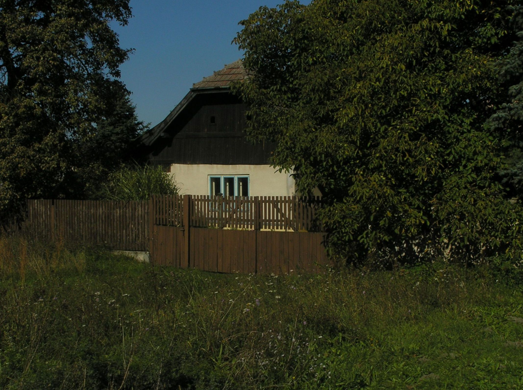 Farnhouse No. 1 in hamlet Bor (part of village Vlkava)